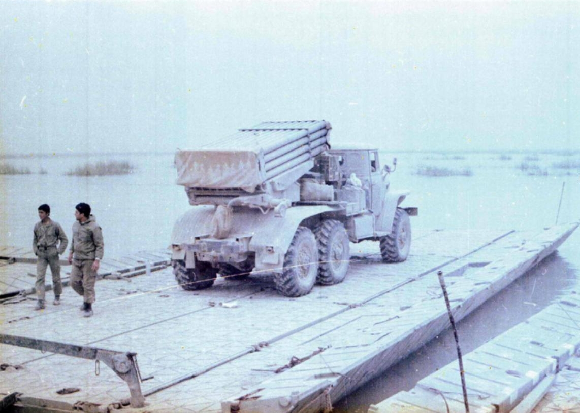 BM-21_Grad_on_the_Raft during Liberation of Khorramshahr